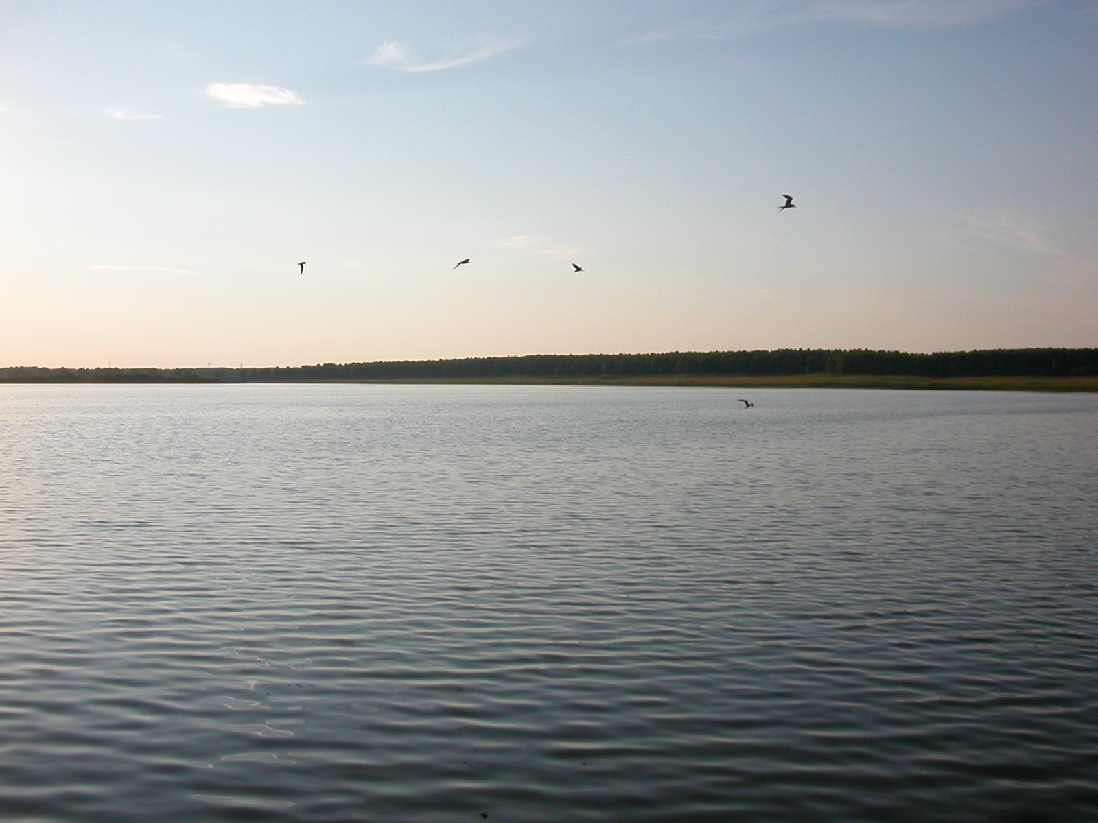 Boevka village